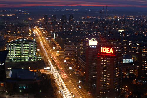 Belgrade city lights